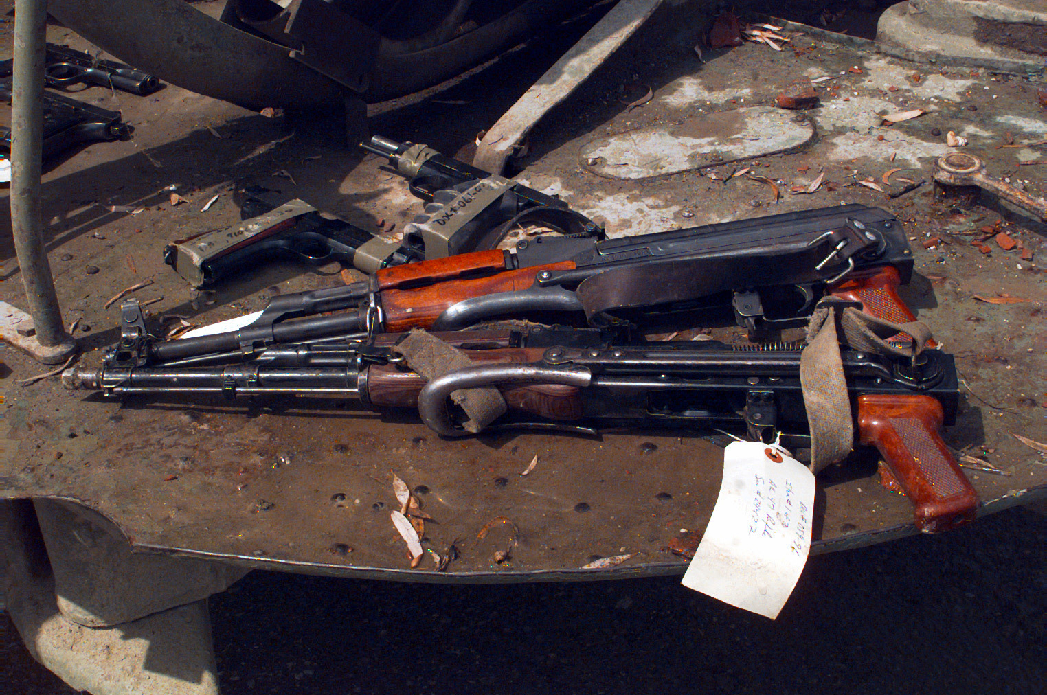 Couple of confiscated Yugoslavian Zastava 80A rifles along with other confiscated handguns await to be to be destroyed at Headquarters, Headquarters Company, 1st Brigade, Combat Team Motorpool during JOINT ENDEAVOR